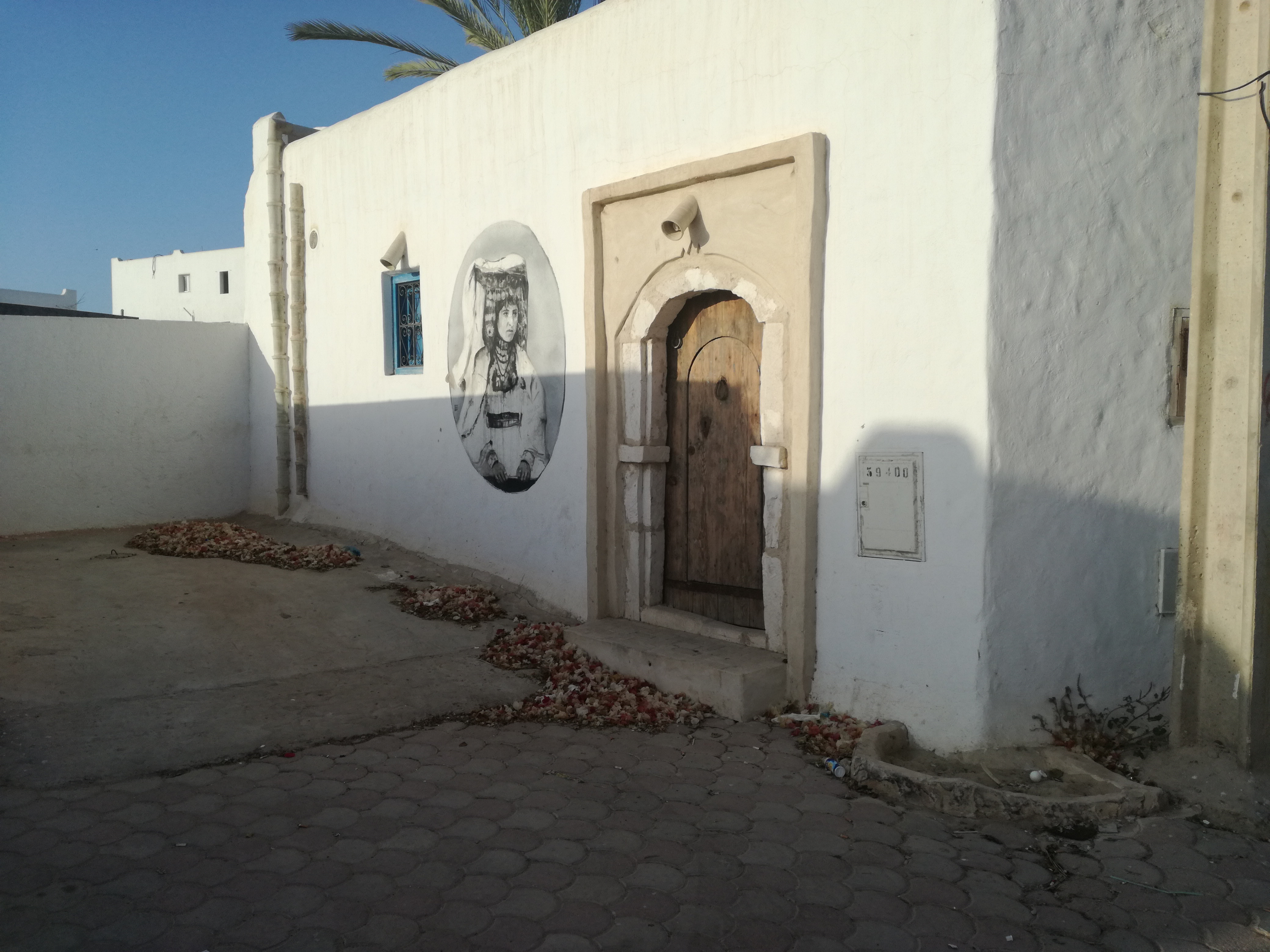 a scene from Djerbahood Erriadh